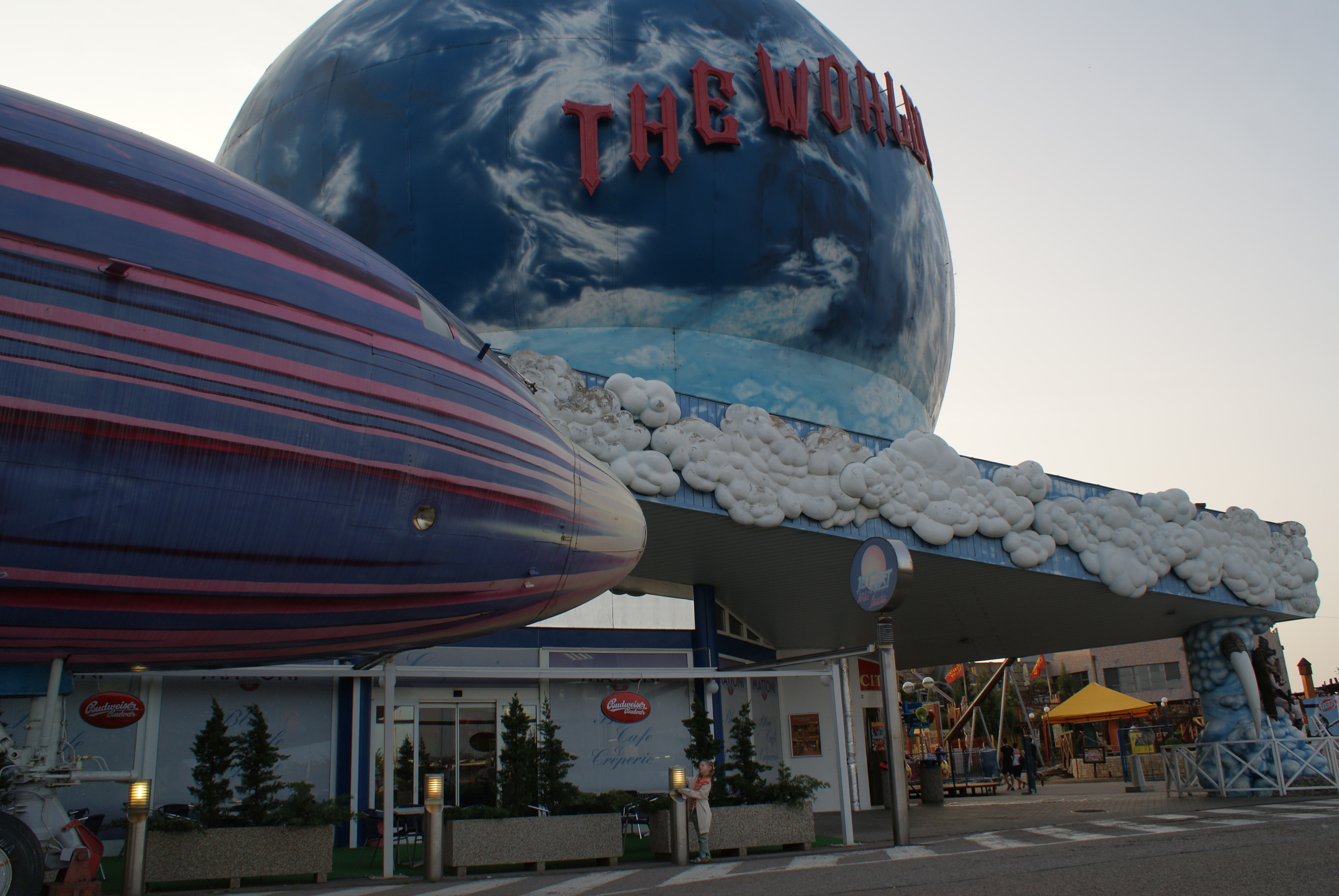 Excalibur City